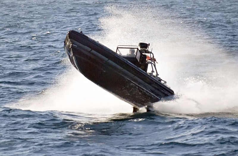 A Danish navy RHIB making speed through water.